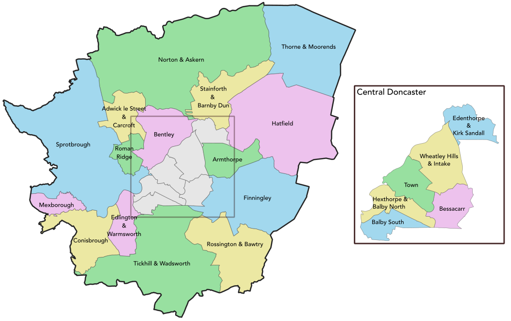 Map of the electoral wards of the metropolitan borough of Doncaster.